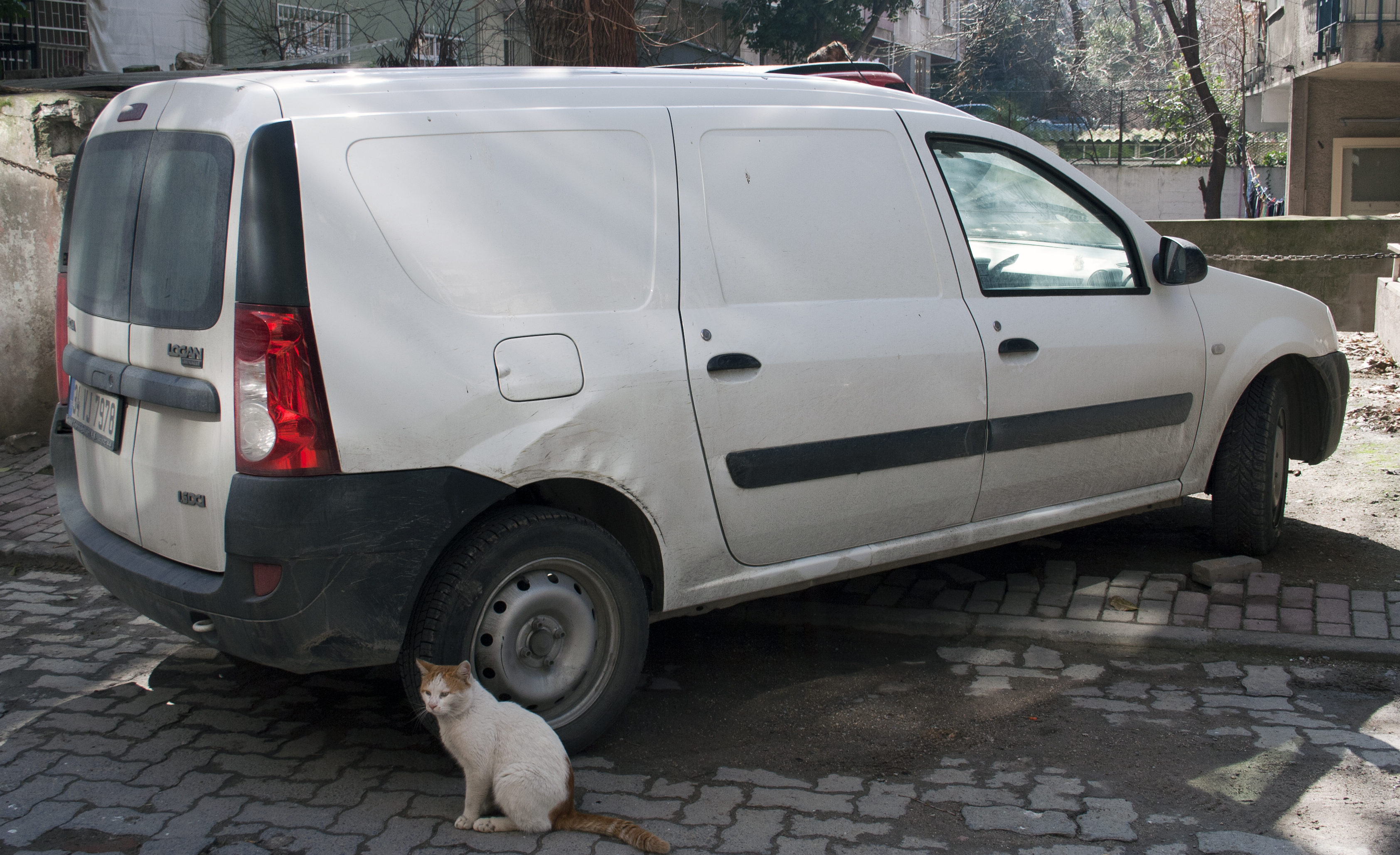 Dacia Logan Van 1.5 DCi with one of Istanbul's many many cats.